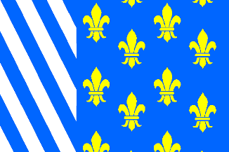 Flag of the Dutch municipality of Bellingwedde